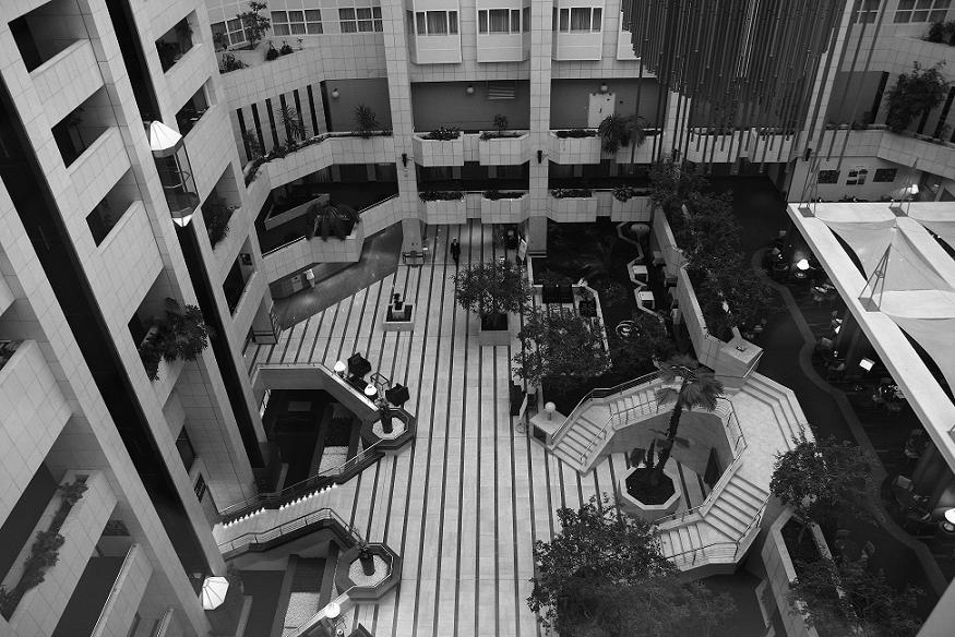 Hilton Hotel in Prague